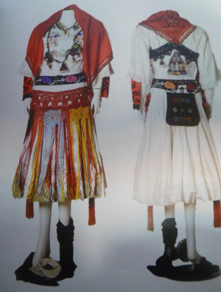 Traditional wearing of bride in province of Rugova (Pejë-Kosovo).It belongs to the 20th century.